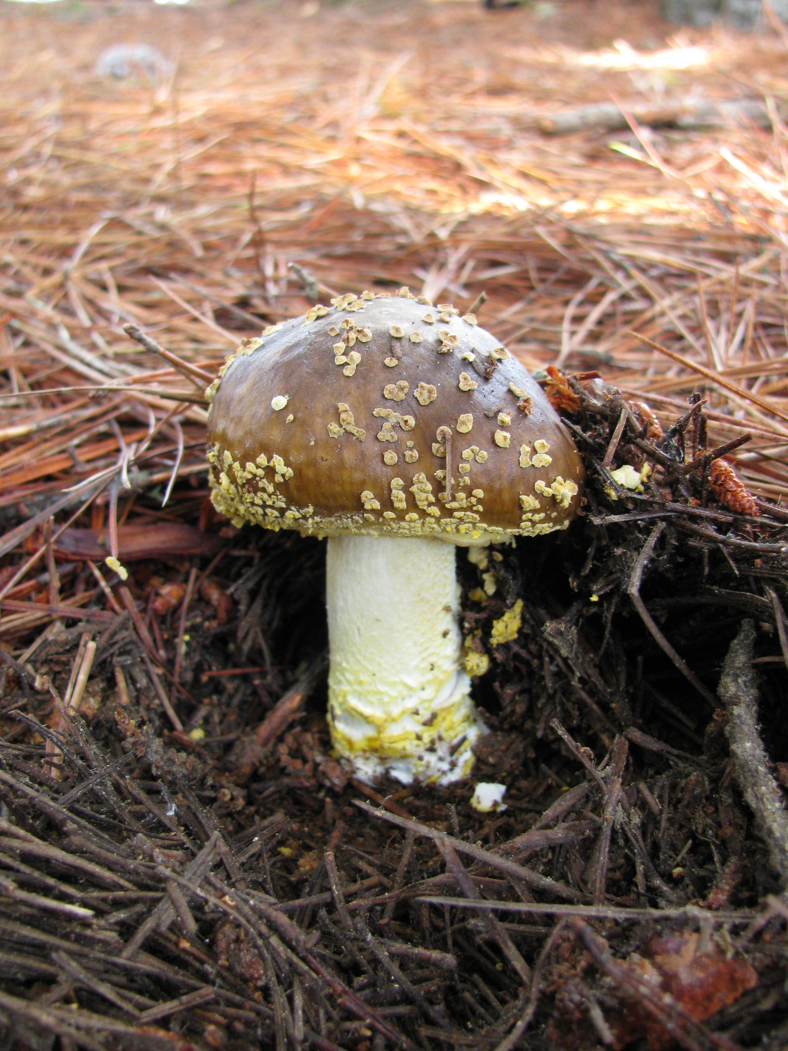 Amanita franchetii (Boud.) Fayod Location: Navarro, Mendocino Co., California, USA For more information about this, see the observation page at Mushroom Observer.